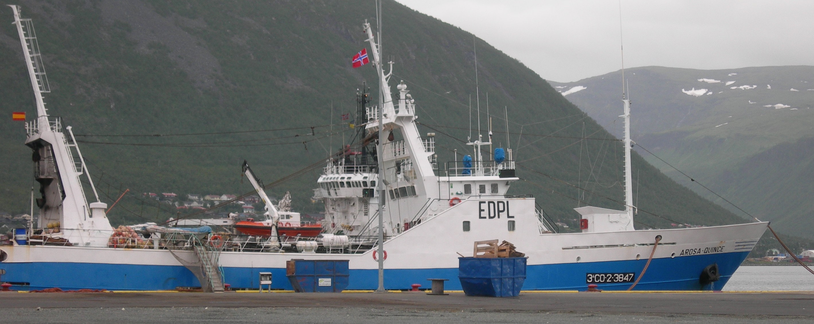 Description: The trawler Arosa Quince docked in Tromsø after being arrested by the Norwegian Coast Guard Date: 18.07.2006 Photo by: Pål Julius Skogholt